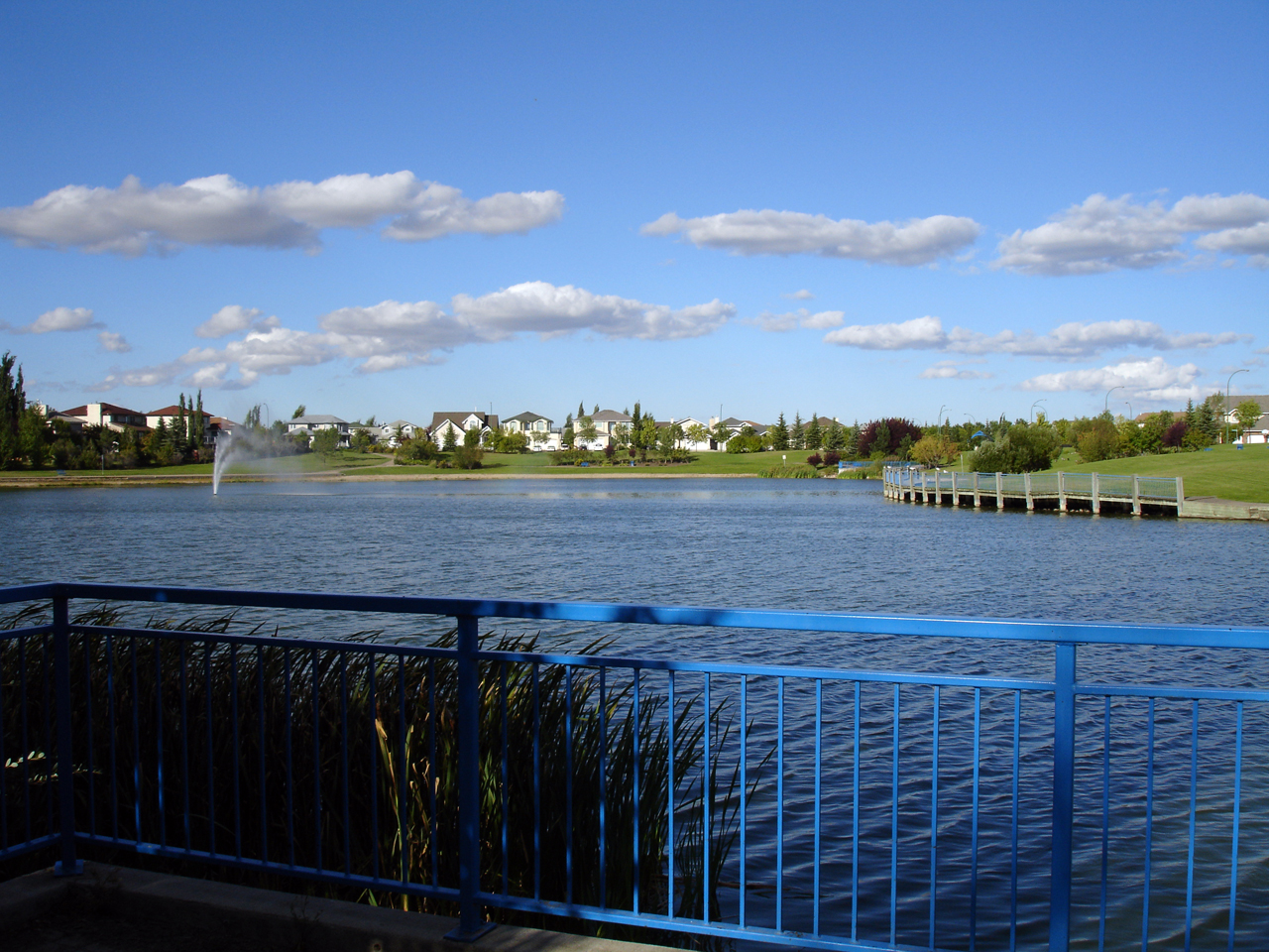 Photo by Daryl Mitchell